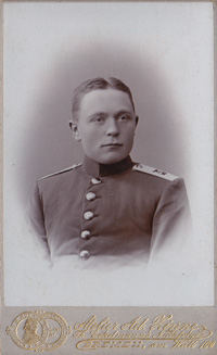 Portrait of a member from Infanterie-Regiment Bremen (1. Hanseatisches) Nr. 75, c. 1905. [Ken Scheffler collection]